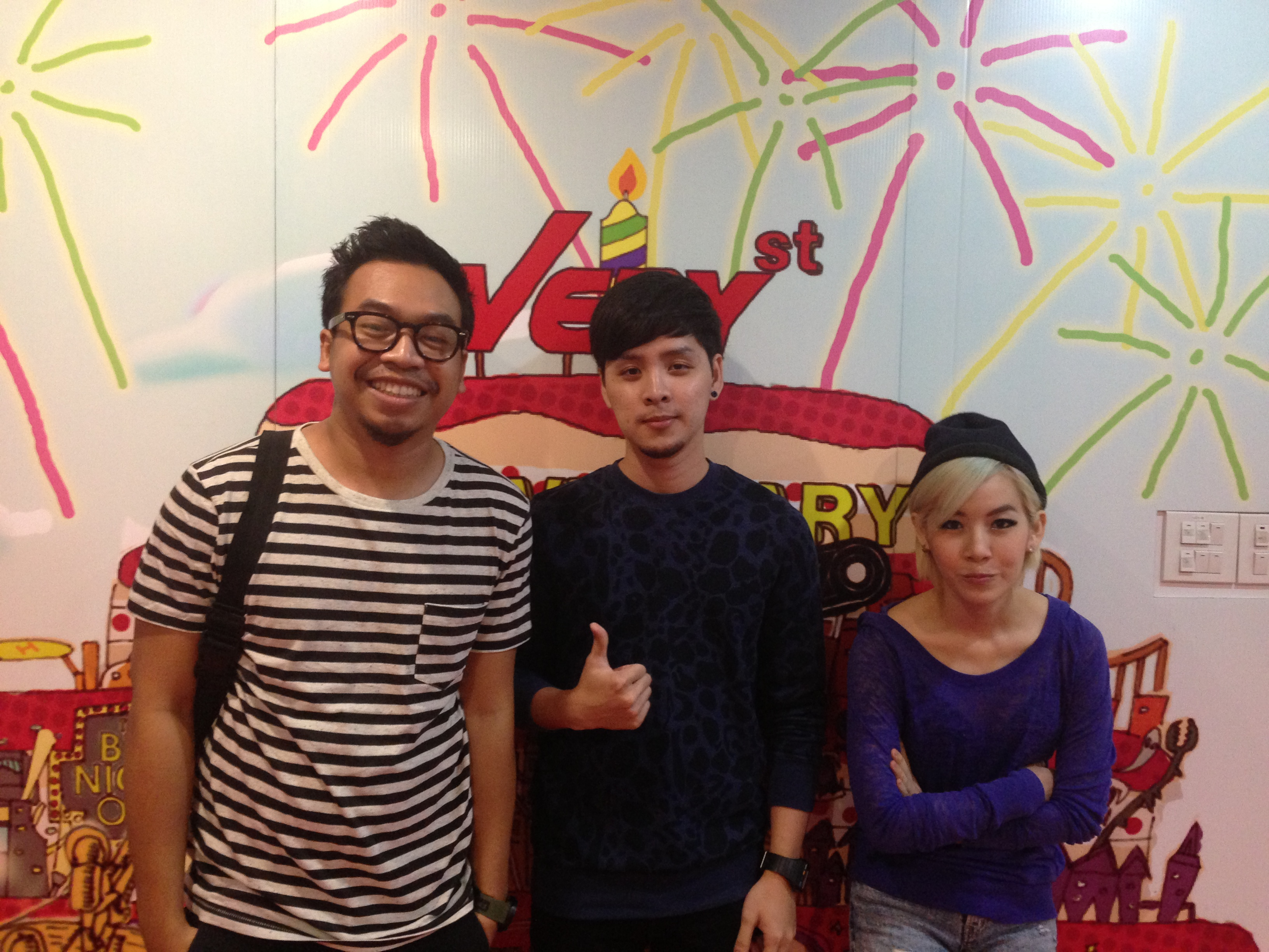 Room 39 at VERY TV.